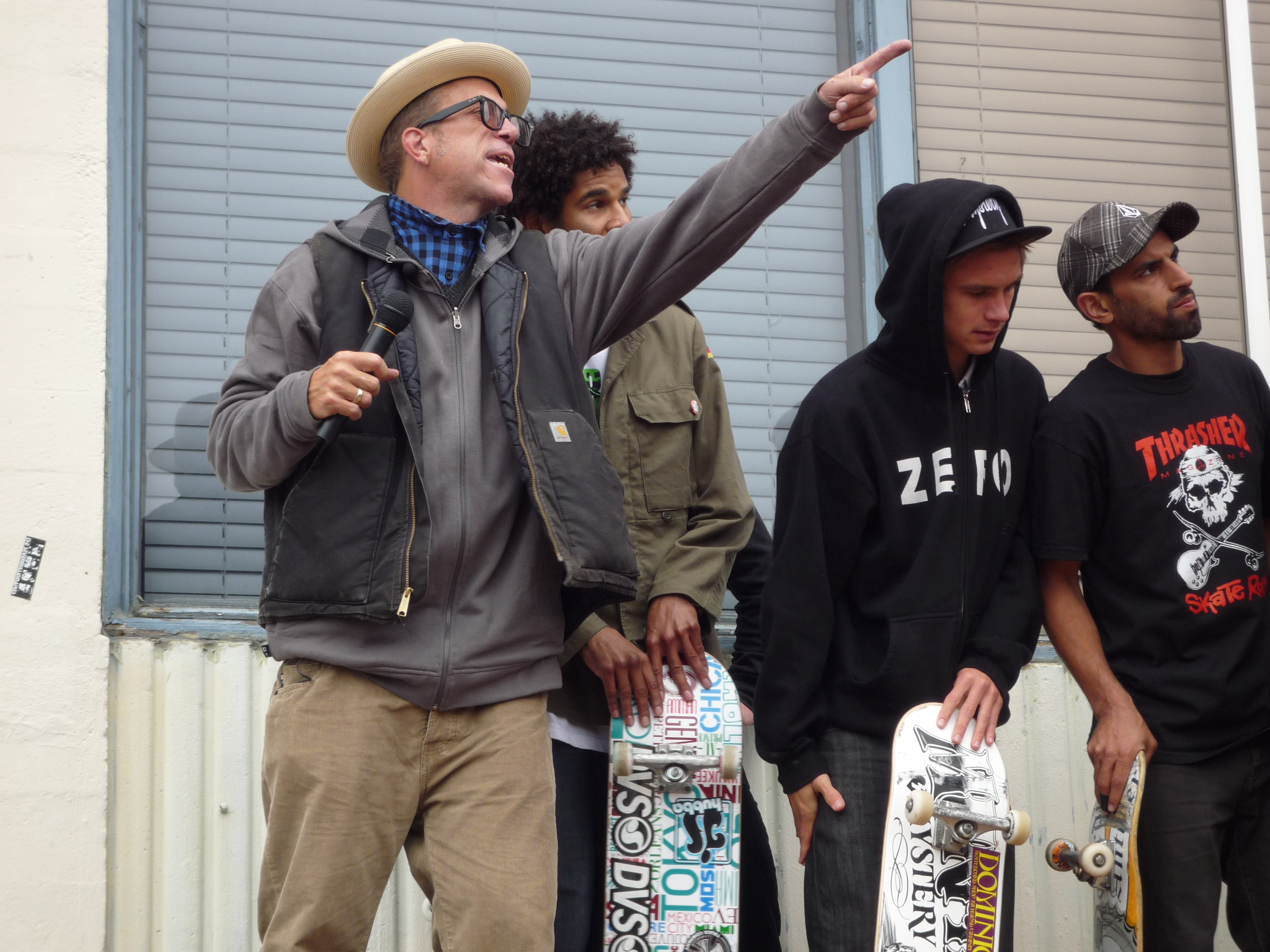 Jake Phelps at a skate contest organized by Thrasher Magazine